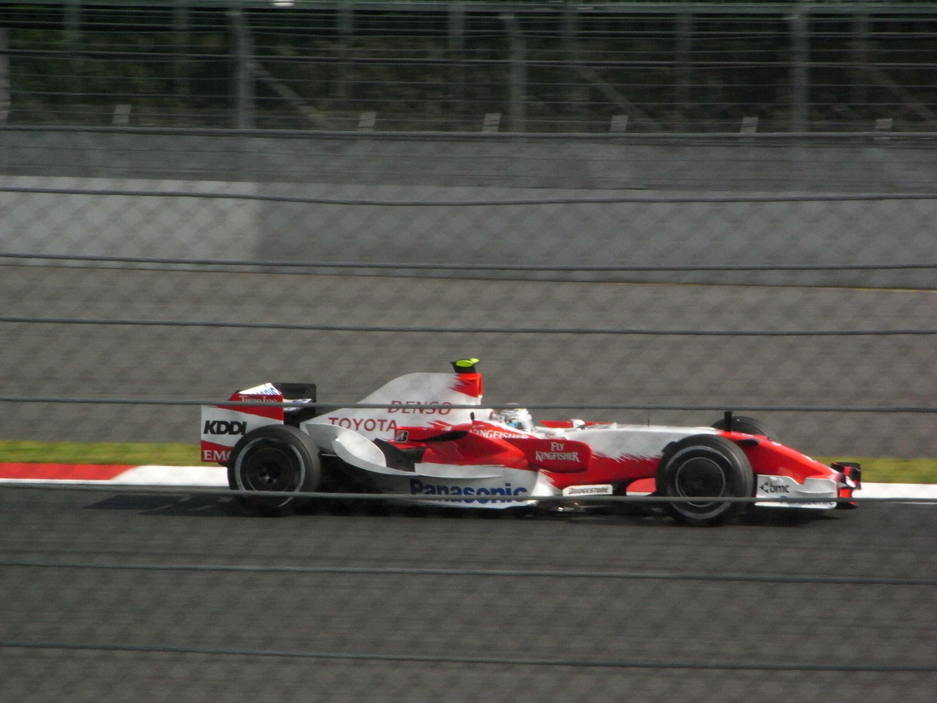 2007 Japanese Grand Prix, friday, Toyota